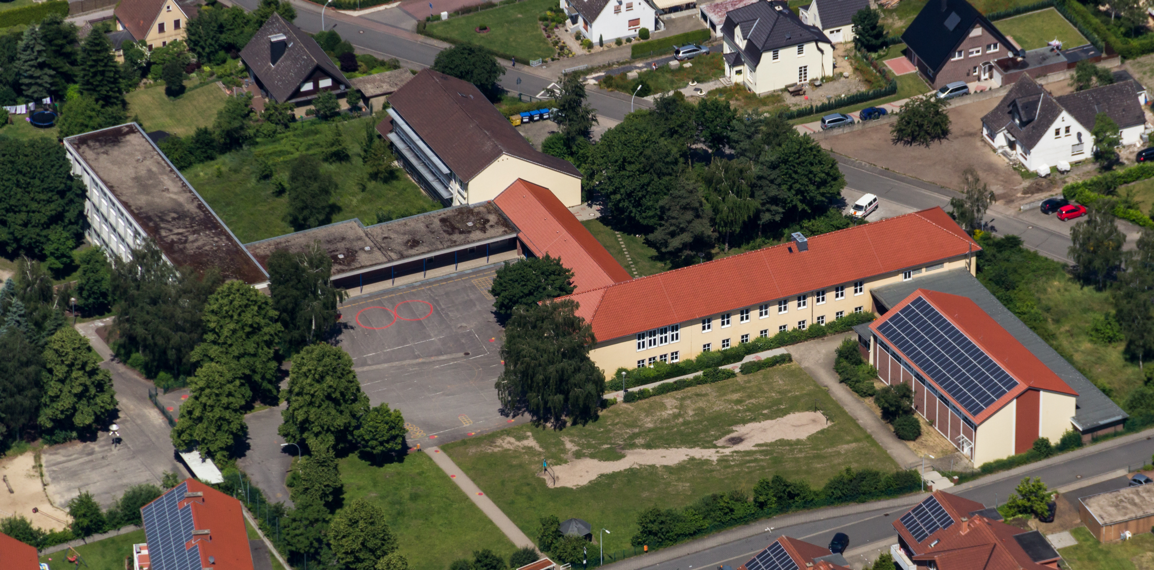 Elementary school, Hohne, Lengerich, North Rhine-Westphalia, Germany